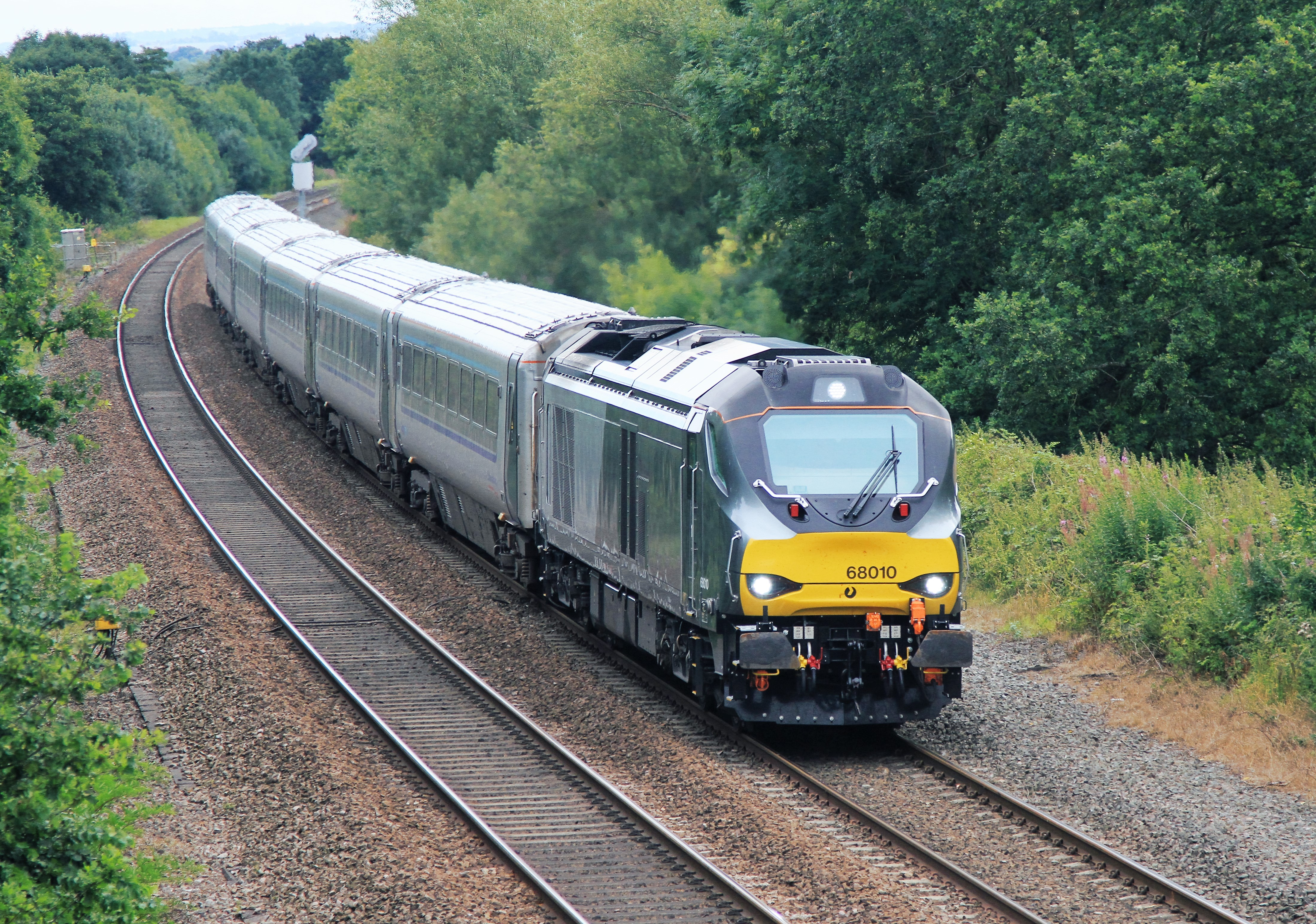 68010 Chiltern Railways Hatton Bank 19-08-2015